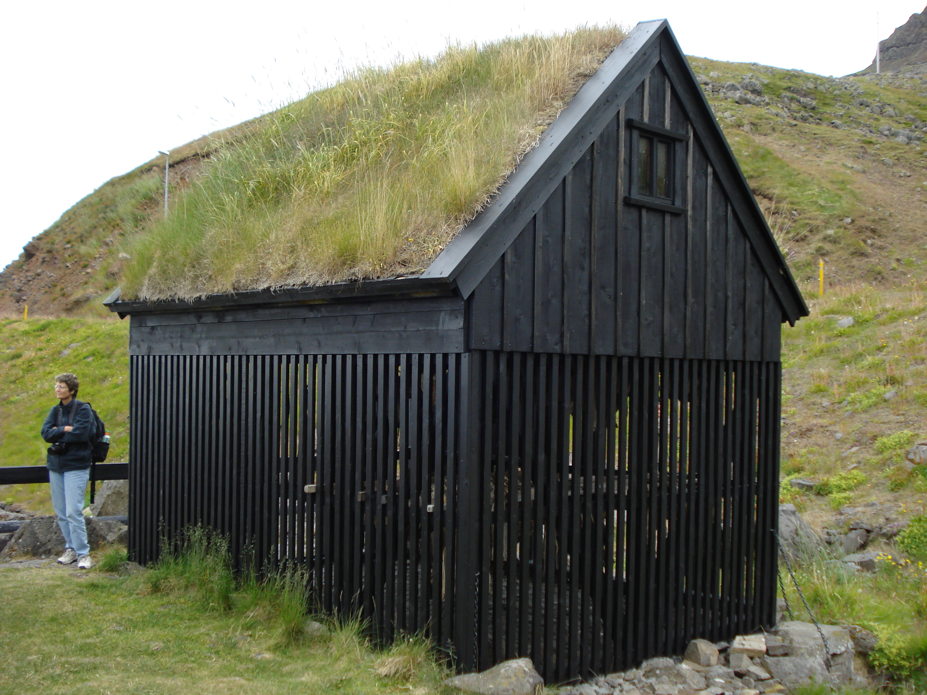 Dryinghouse for fish, Ósvör (Bolungavík), Iceland